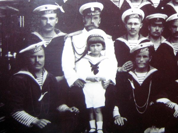 Nikolas II, Alexei Nikolaevich, Tsarevich of Russia and Servant in Waiting for Royal children Ivan Sednev (right). On board Russian Imperial yacht Standart